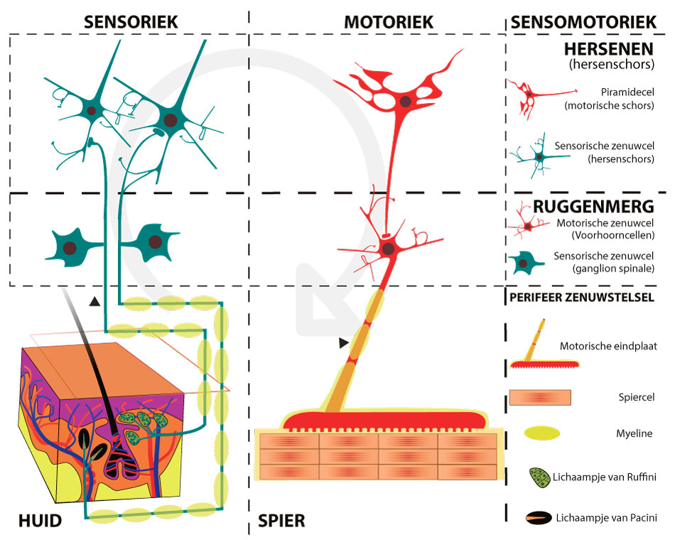 Gross organization of the nervous system, with the peripheral nervous system, the spinal and the cortical levels